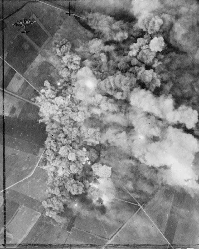 Royal Air Force Bomber Command, 1942-1945. An Avro Lancaster leaves the target area (top left), as smoke from exploding bombs smothers the village of Cagny, south-east of Caen, France. 942 aircraft of Bomber Command were despatched to bomb German-held positions, in support of the Second Army attack in the Normandy battle area (Operation GOODWOOD), on the morning of 18 July 1944.